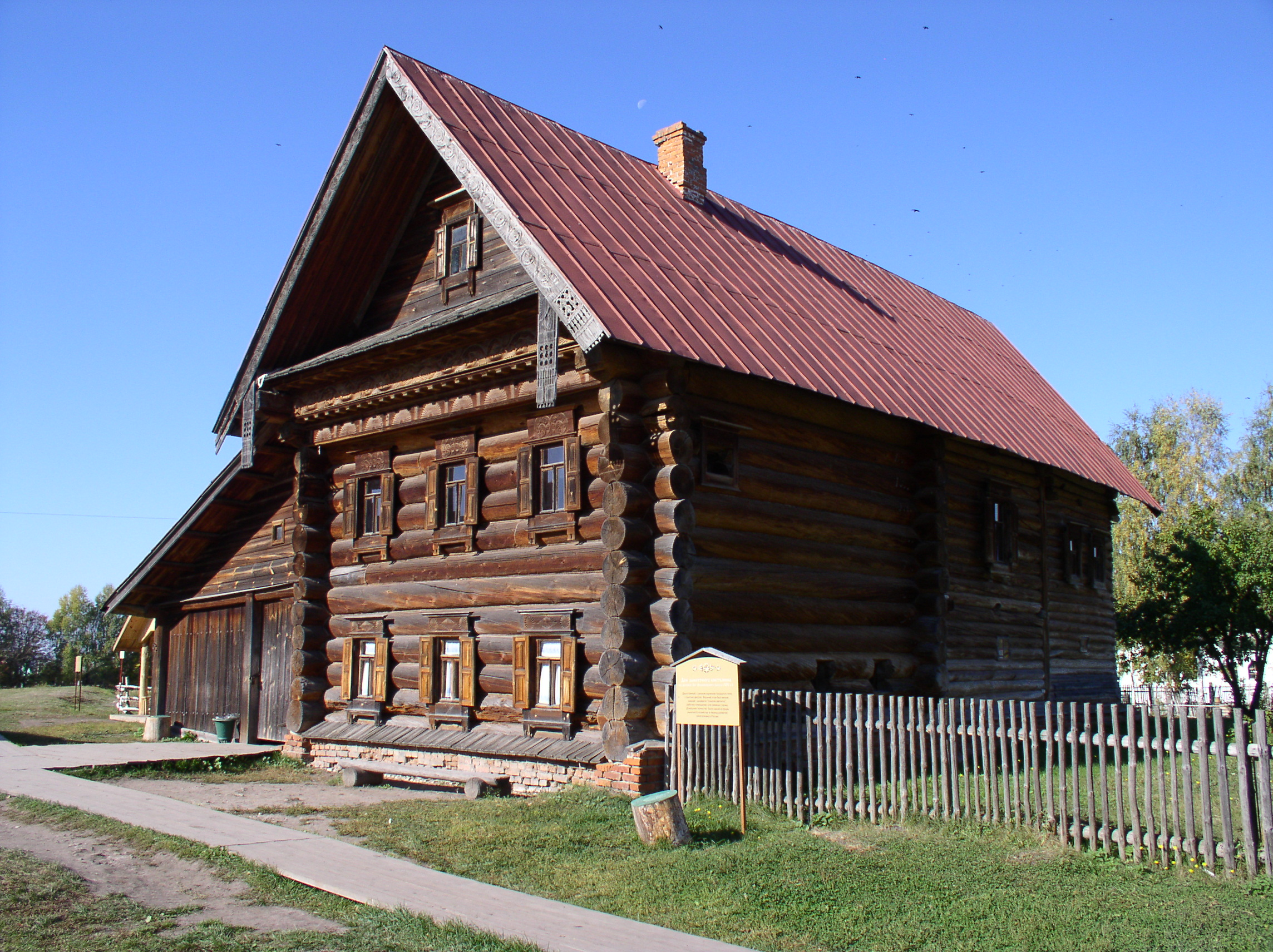 House of prosperous peasant. Museum of Wooden Architecture and Peasant Life in Suzdal, Russia.